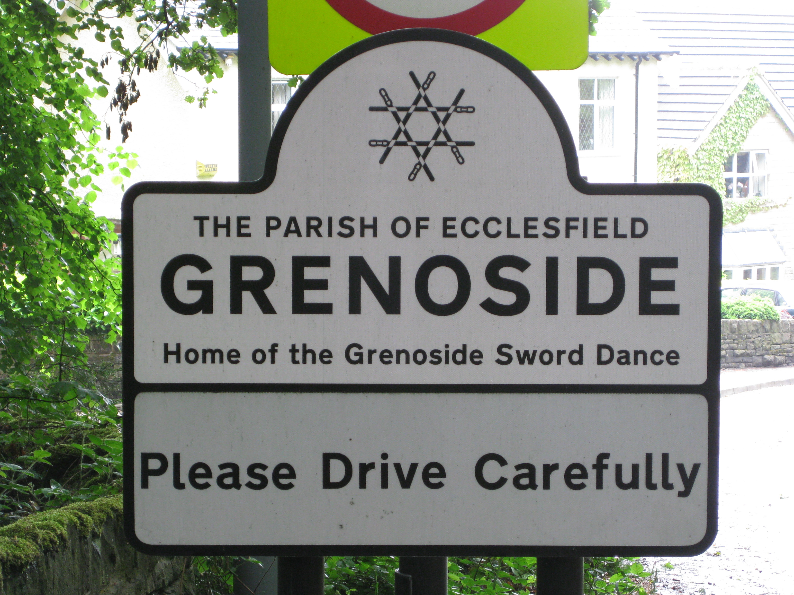 Grenoside Welcome sign, Sheffield